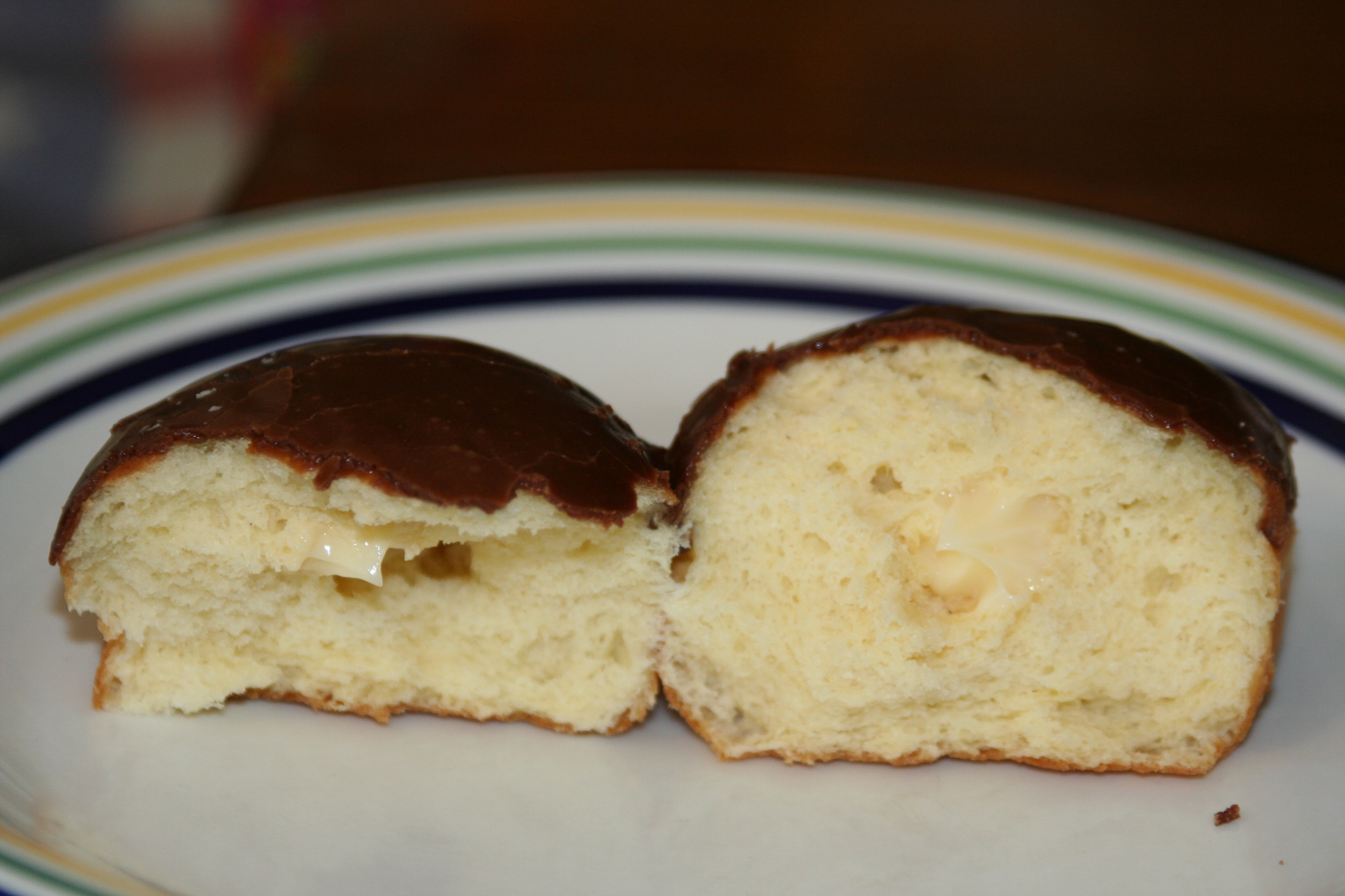 Boston cream doughnut bisected to show interior (please note limited cream content as indicative of cheapo independent donut franchise). Photo by ChildofMidnight. Attribution required.